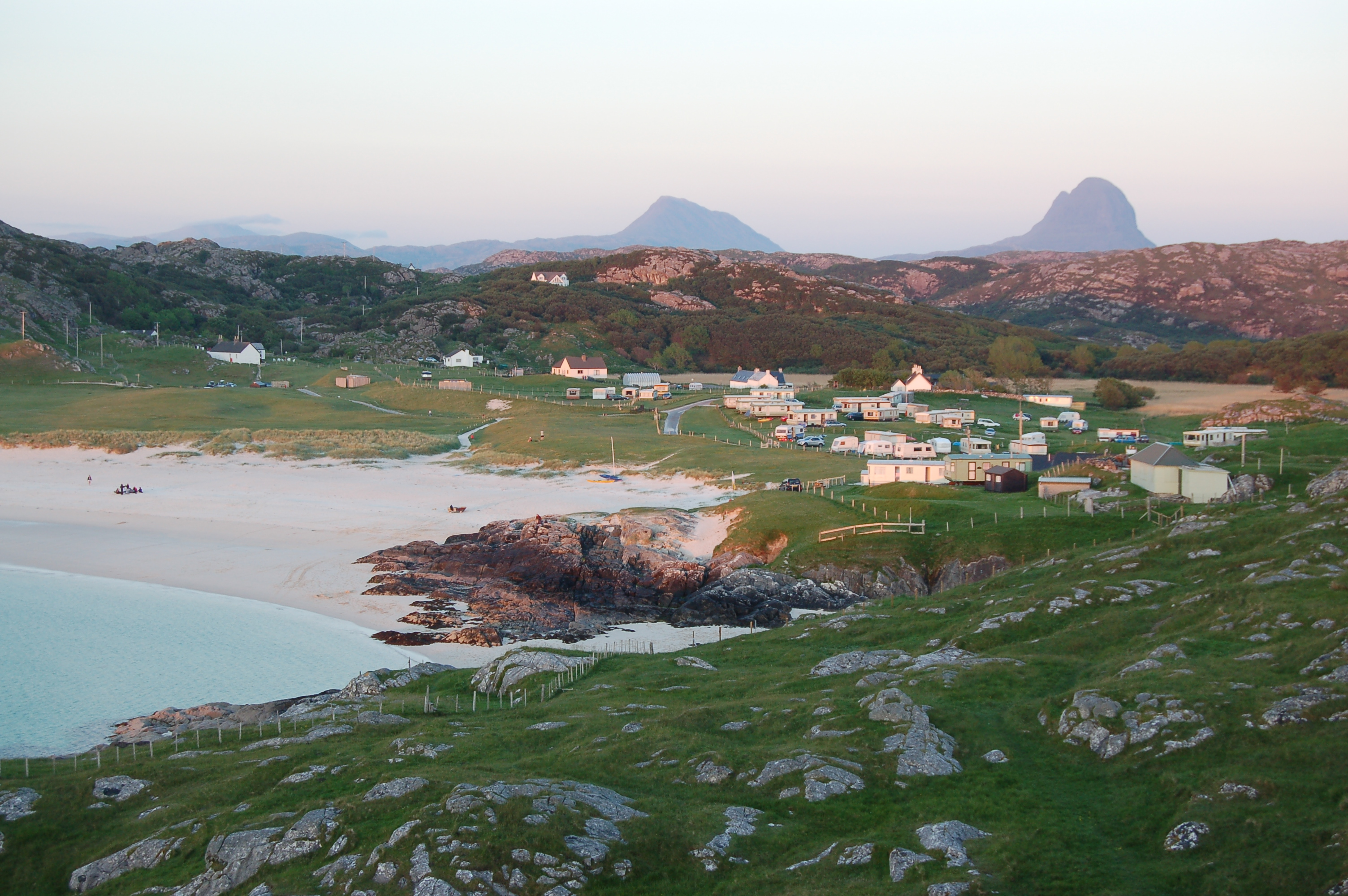 Bay of Alchmelvic.